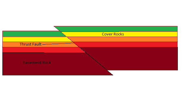 Illustration of thick skinned deformation through thrust faulting